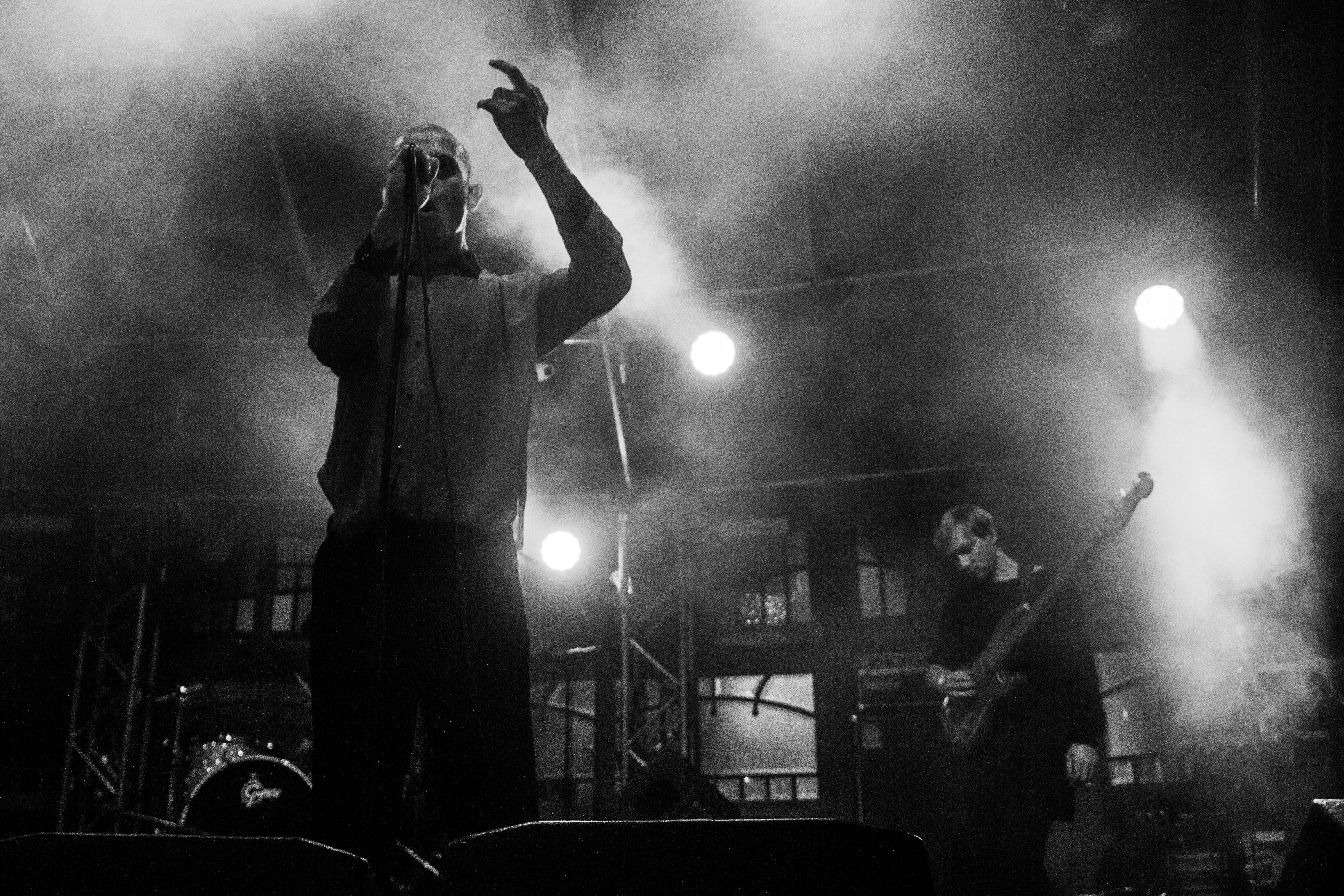 Shortparis at Haldern Pop Festival 2018 in Haldern